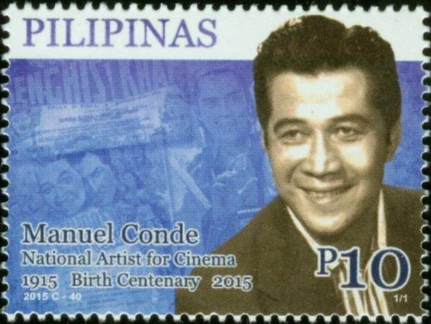 Manuel Conde, birth centenary